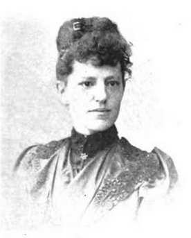 Blanche Dillaye